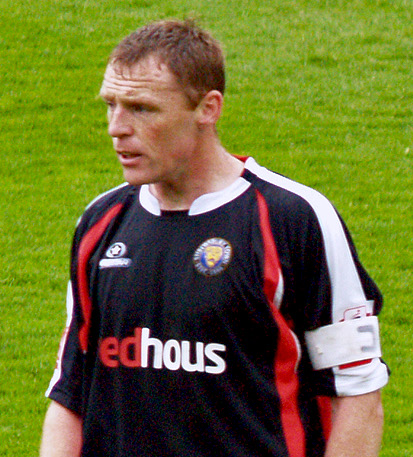 Graham Coughlan, an Irish footballer.